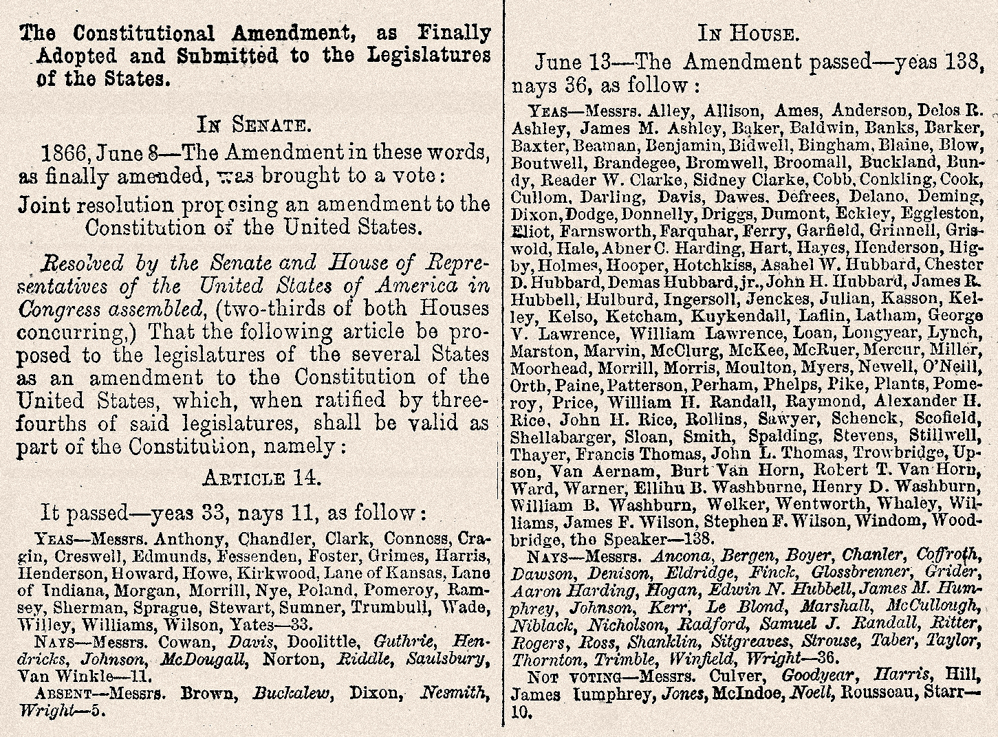 US Senate and House of Representatives votes on the 14th Amendment